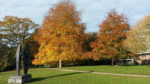 Autumnal trees, University of Southampton